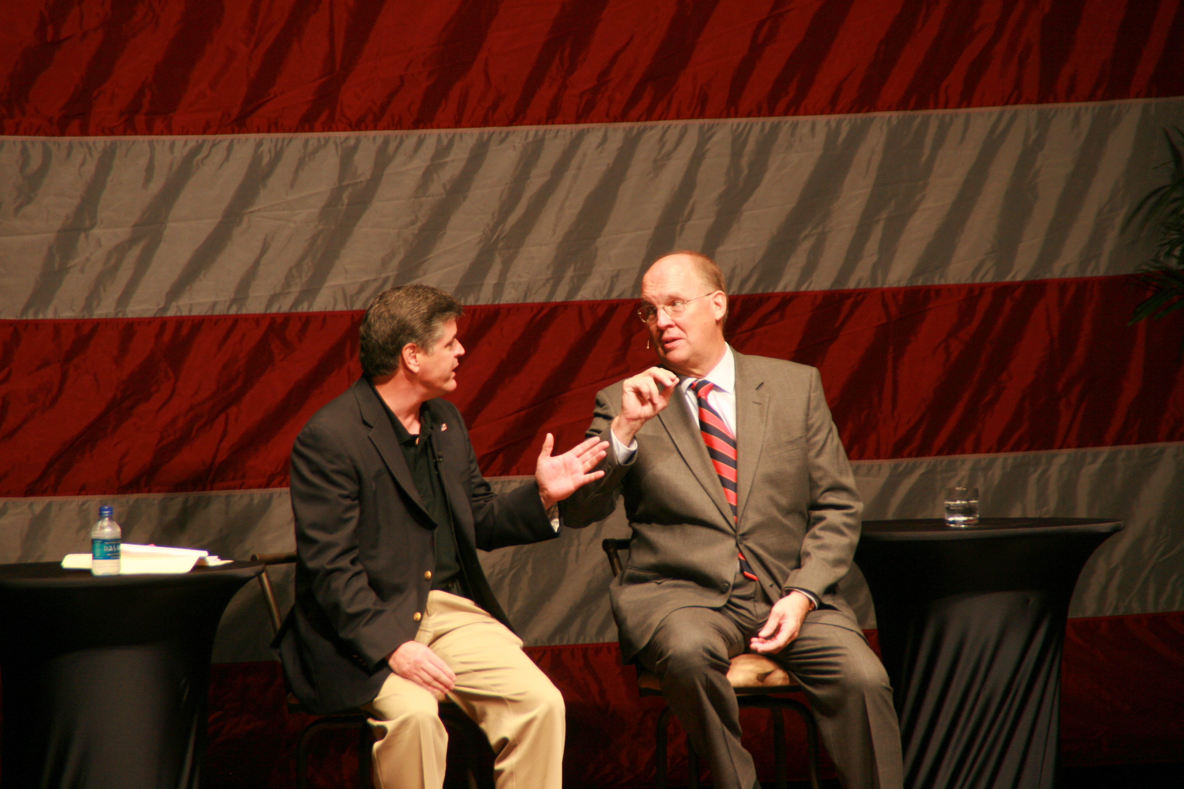 Neal Boortz and Sean Hannity at Hannity - Boortz event